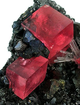 Chalcopyrite, Quartz, Rhodochrosite Locality: Octahedron Pocket, Mini King Raise, Sweet Home Mine, Alma, Colorado Size: miniature, 5.2 x 4.2 x 2.3 cm Rhodochrosite, Quartz, Chalcopyrite An incredible miniature, simply stunning, with crystals so gemmy and transPARENT, they look carved and glued on to the tetrahedrite. The matrix is crystallized tetrahedriteof jet black color an dlustre, not the usual gray or dull style. A few clear quartzes by accent, and you have a simply stunning, top calibre miniature that would fit in any competitive case. There is simply nothing wrong with the piece...it is textbook pristine and aesthetic. Out of all the hundreds of rhodos he selected from in his day (Helmut was the rhodo agent contracted to be selling to Europe for most of the 1990s!) , this was the one Helmut kept. There are bigger, but not many finer. Rhodos of this quality do go for an admitted "arm and a leg." They must. There are just so few of them to go around.